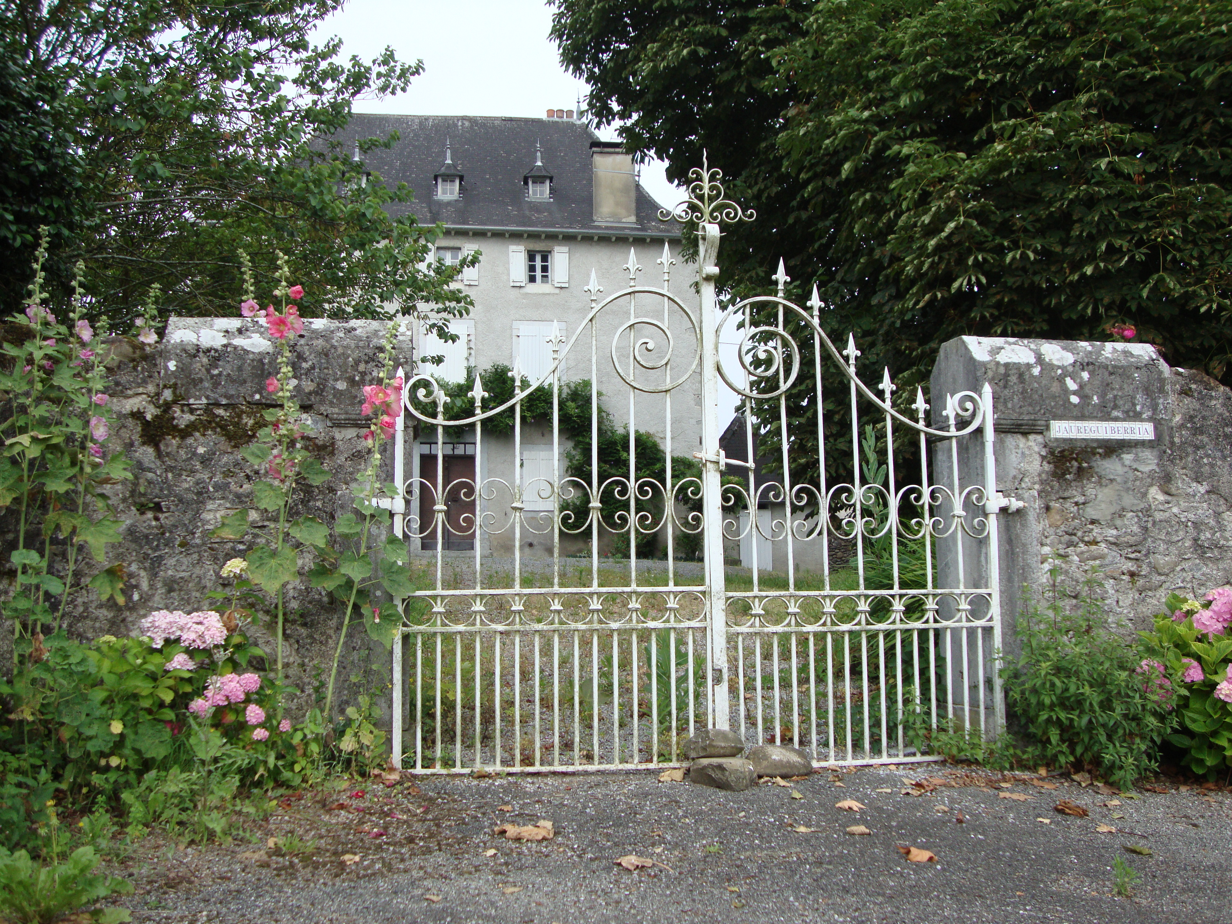 Mendy (Idaux-Mendy, Pyr-Atl, Fr) Jaureguiberria